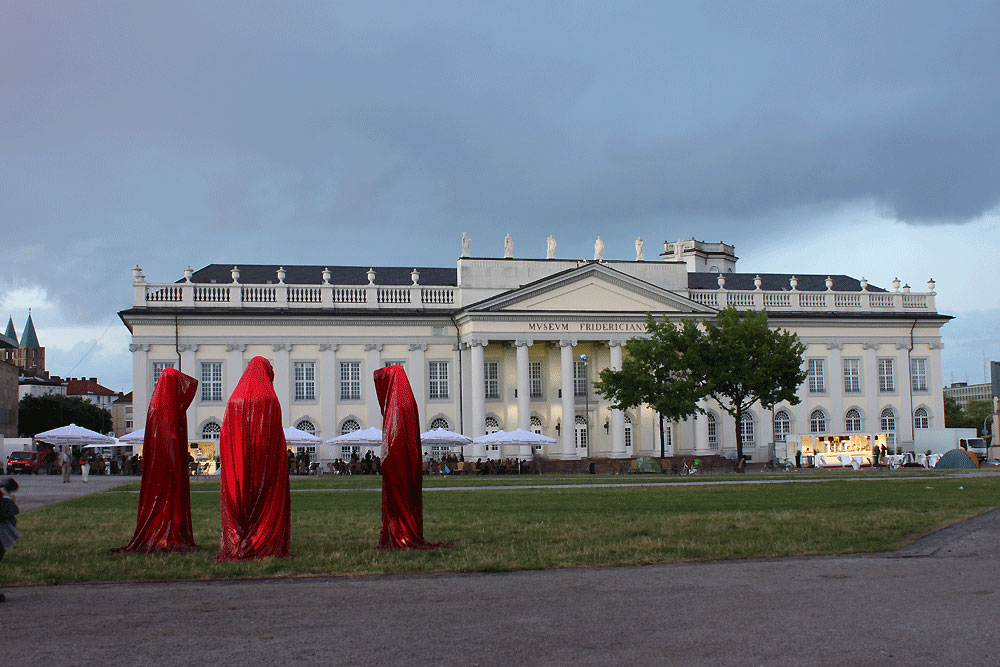 Occupy Documenta Kassel Friedrichsplatz - Time guards Manfred Kielnhofer - contemporary visual light art sculpture